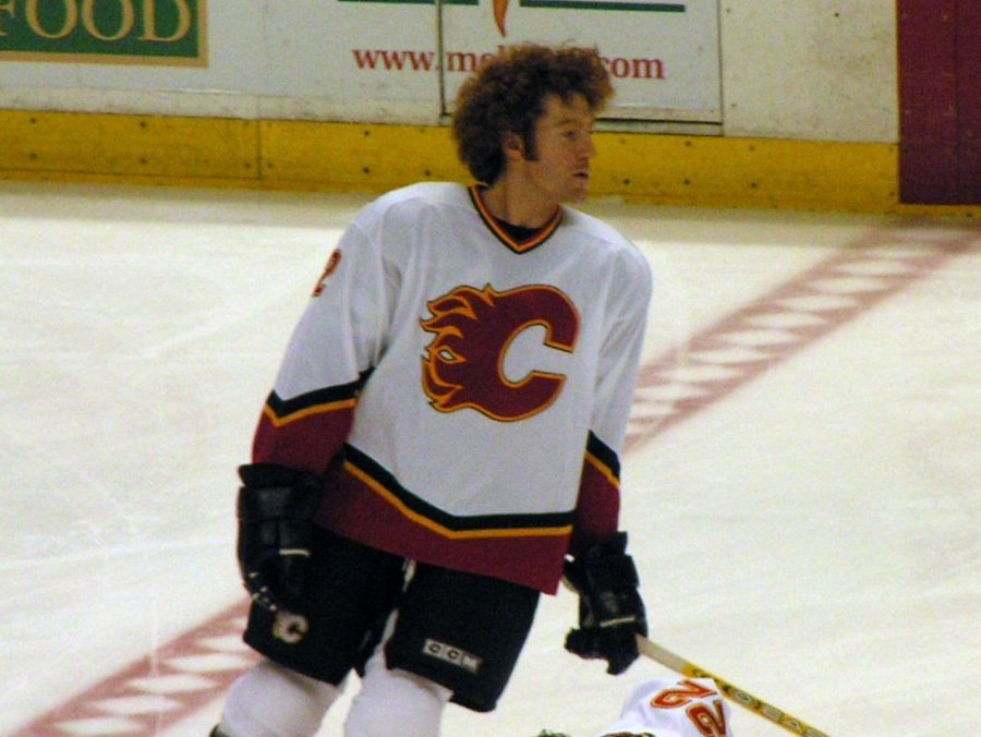 'Mike Commodore of the Calgary Flames while warmup in Anaheim